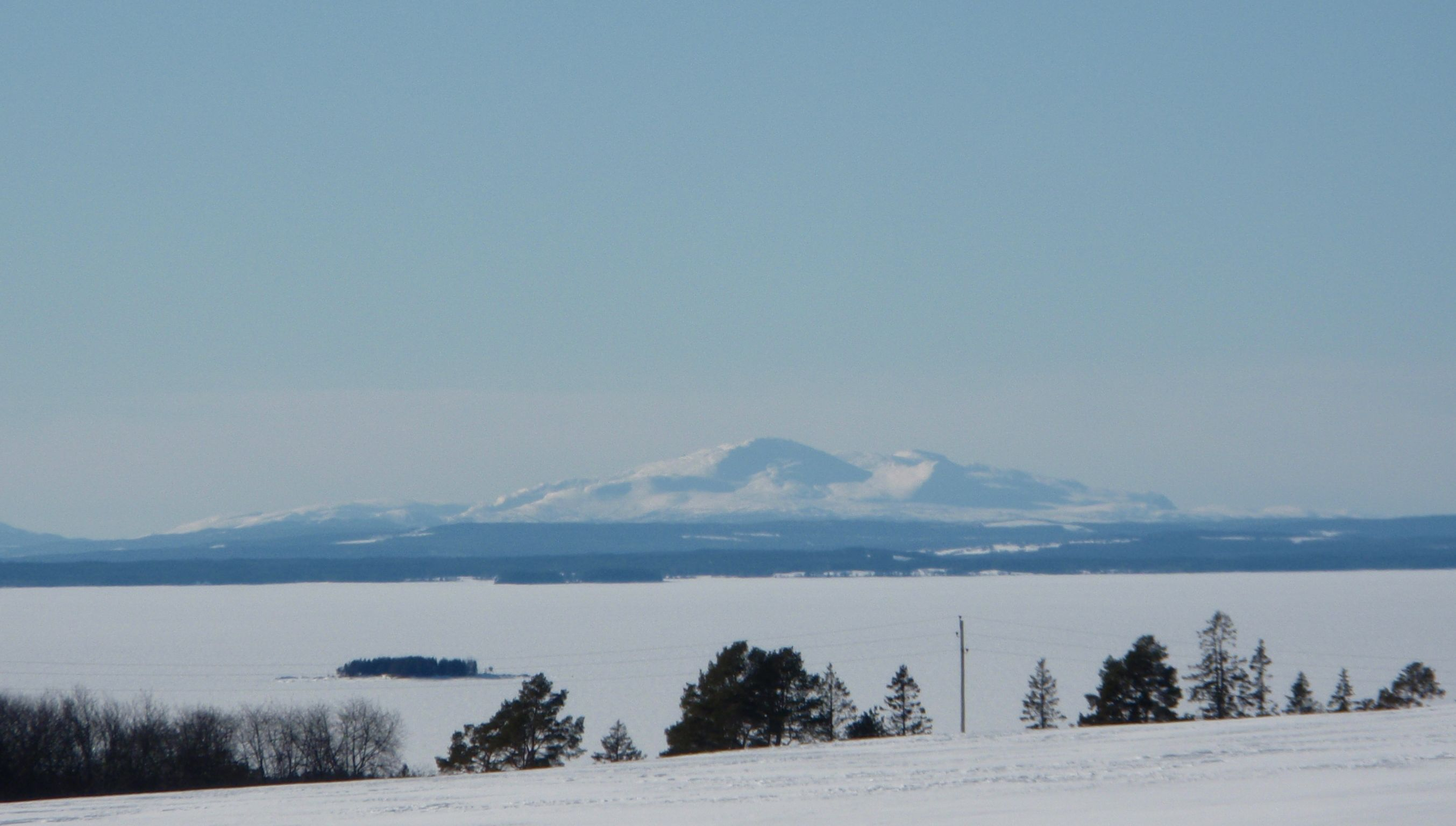 View over Storsjön and mountains